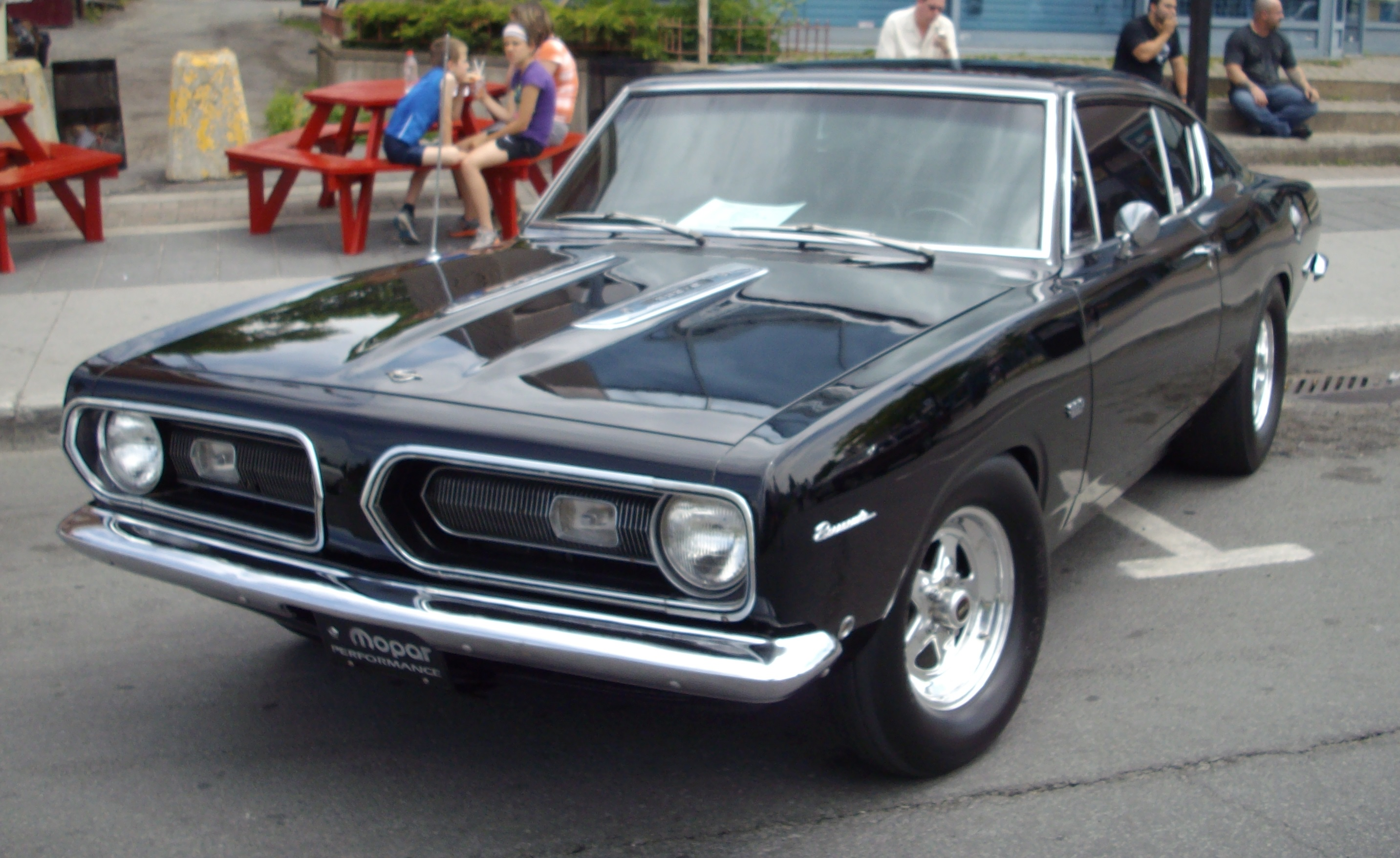 Plymouth Barracuda photographed in Montréal, Quebec, Canada at Destination Décarie 2012.